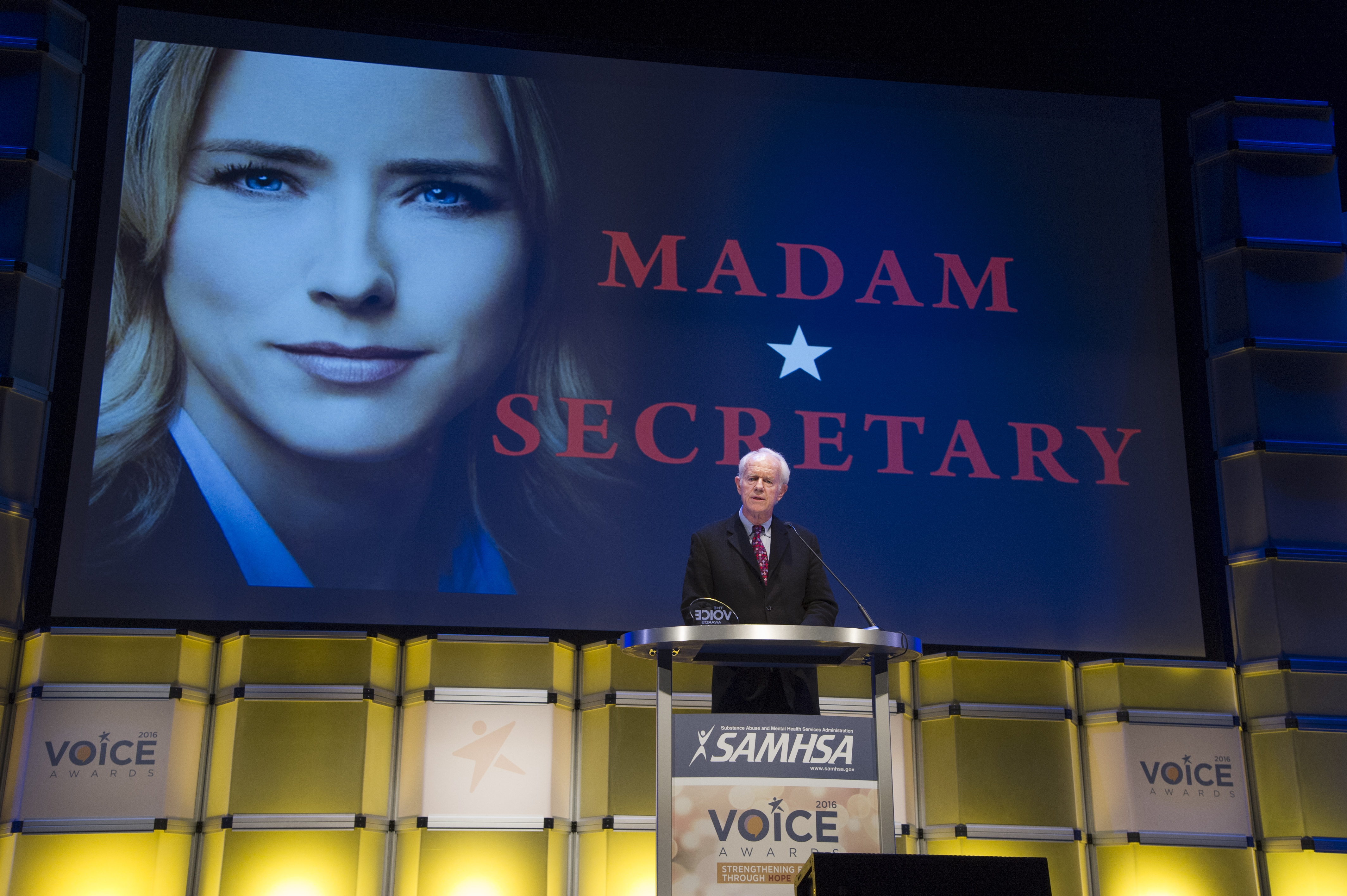 Mike Farrell presenting a 2016 Voice Award to Moira Kirland for the show Madam Secretary.